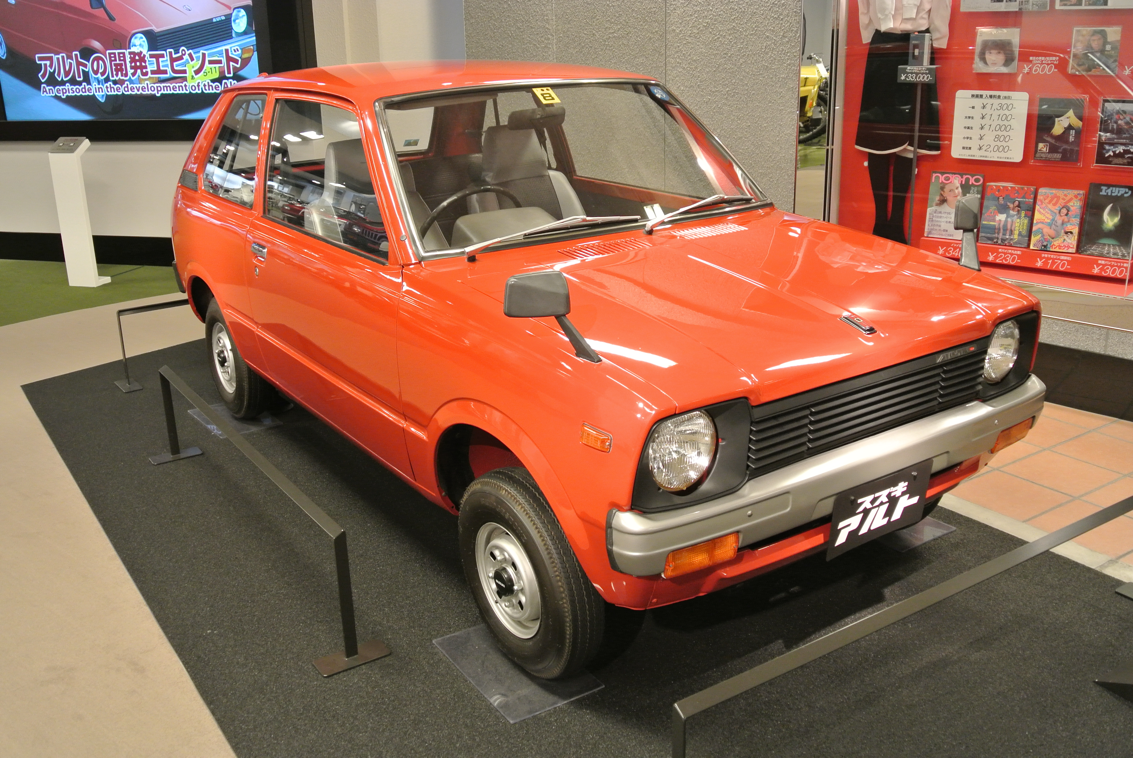 1979 Suzuki Alto in the Suzuki History Museum.